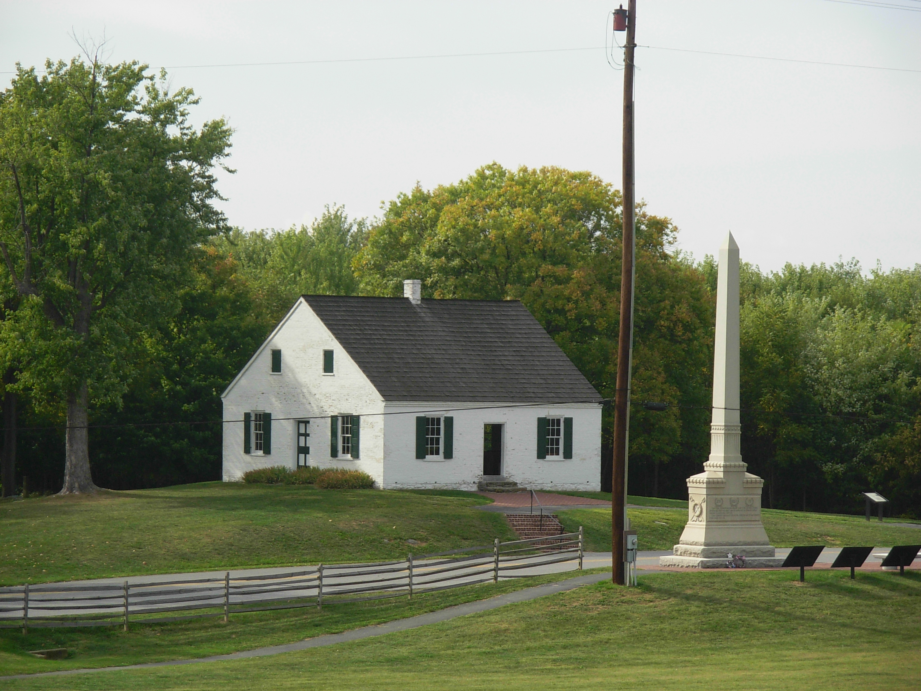 Dunker Church at the Antietam National Battlefield, in northwestern Maryland. American Civil War Monument for the 5th, 7th, and 66th Ohio Infantry.